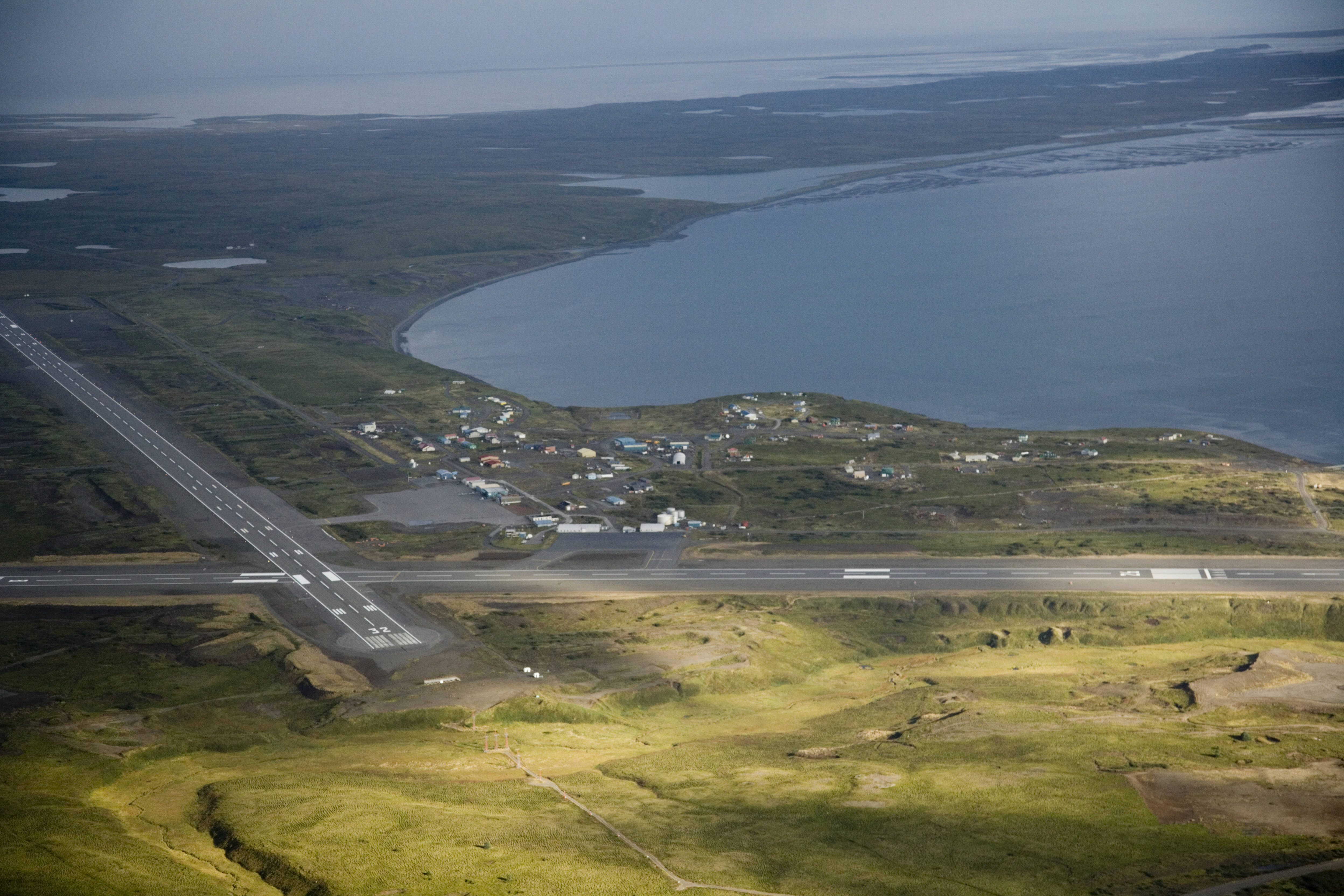 Izembek National Wildlife Refuge lies between the highly productive waters of the Bering Sea and the Gulf of Alaska. Within the heart of the Refuge is Izembek Lagoon, a 30-mile long and 5-mile wide coastal ecosystem that contains one of the world's largest eelgrass (Zostera marina) beds. More than 200 species of wildlife and nine species of fish can be found on the Refuge. Millions of migratory waterfowl and shorebirds find food and shelter in the coastal lagoons and freshwater wetlands on their way to and from their subarctic and arctic breeding grounds. This extraordinary abundance and diversity of waterfowl has attracted international attention. In 1986, Izembek National Wildlife Refuge and Izembek State Game Refuge, which encompasses the submerged land of Izembek Lagoon, was the first wetland area in the United States to be recognized as a Wetland of International Importance by the RAMSAR Convention. In 2001, Izembek Refuge was also designated as a Globally Important Bird Area by the American Bird Conservancy.